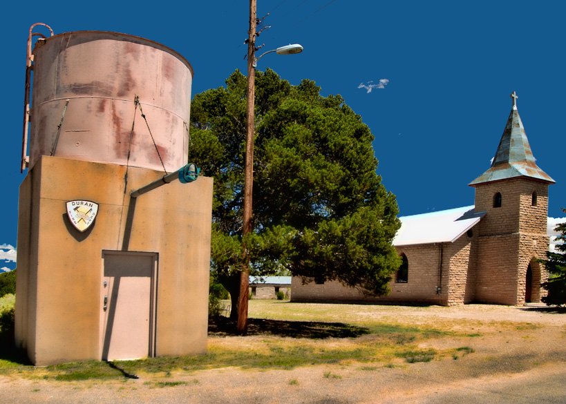 August 2011